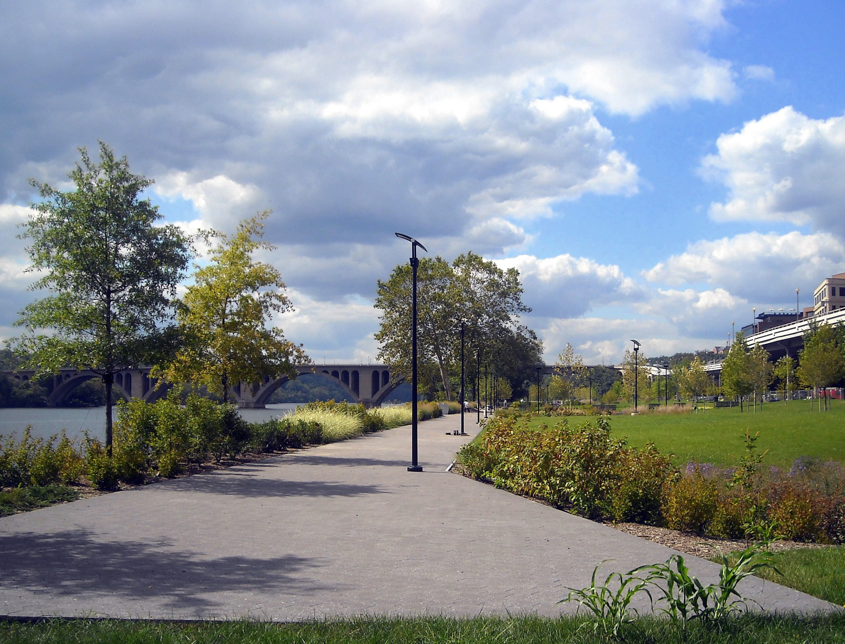 The Georgetown Waterfront Park in the Georgetown neighborhood of Washington, D.C. The Francis Scott Key Bridge, which connects Georgetown to Rosslyn, Virginia, is in the background. The Whitehurst Freeway can be seen on the far right.